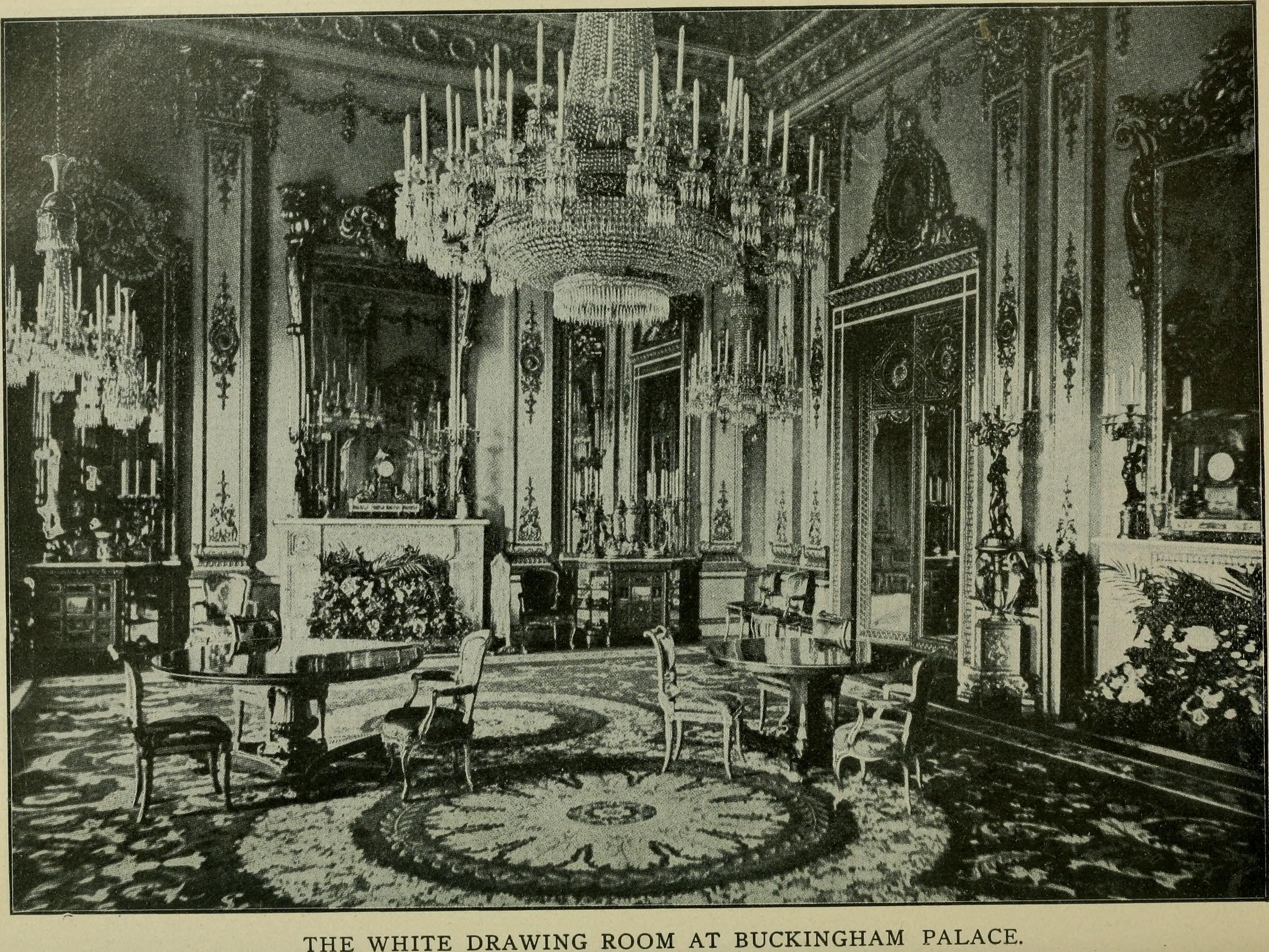 The White Drawing Room at Buckingham Palace Title: Queen Victoria, her grand life and glorious reign; a complete story of the career of the marvelous queen and empress, and a life of the new king, Edward VII, with a brief history of England Year: 1901 (1900s) Authors: Coulter, John, ed Victoria, Queen of Great Britain, 1819-1901 Cooper, John A. (John Alexander), b. 1868, joint ed Subjects: Publisher: (Chicago, H. Neil) Text Appearing Before Image: ' Text Appearing After Image: OTHER TRIBUTES PAID. 155 before him the greatest example possible. He has been familiar for a gener-ation with political and social life, He enjoys enormous popularity, and is almost as much beloved in for-eign courts and countries. Congratulations can be tendered him with earnestsincerity and in the belief that he will adorn the throne and be no unworthysuccessor of the Queen. OTHER TRIBUTES PAID. Lord Kimberley said he desired to echo every word of the noble Marquis. His access to the sovereign dated back to an even earlier period than theMarquis. He had always been struck with the extraordinary considerationand kindness which marked Her Majestys conduct towards all who came incontact with her. He was simply amazed at the sound, real knowledge shepossessed of all important affairs. The Archbishop of Canterbury said the Queens influence as a trulyreligious woman was far greater than anything exercised by the wiseststatesman or cleverest administrator. CHAPTER VII. Edward VII., King o